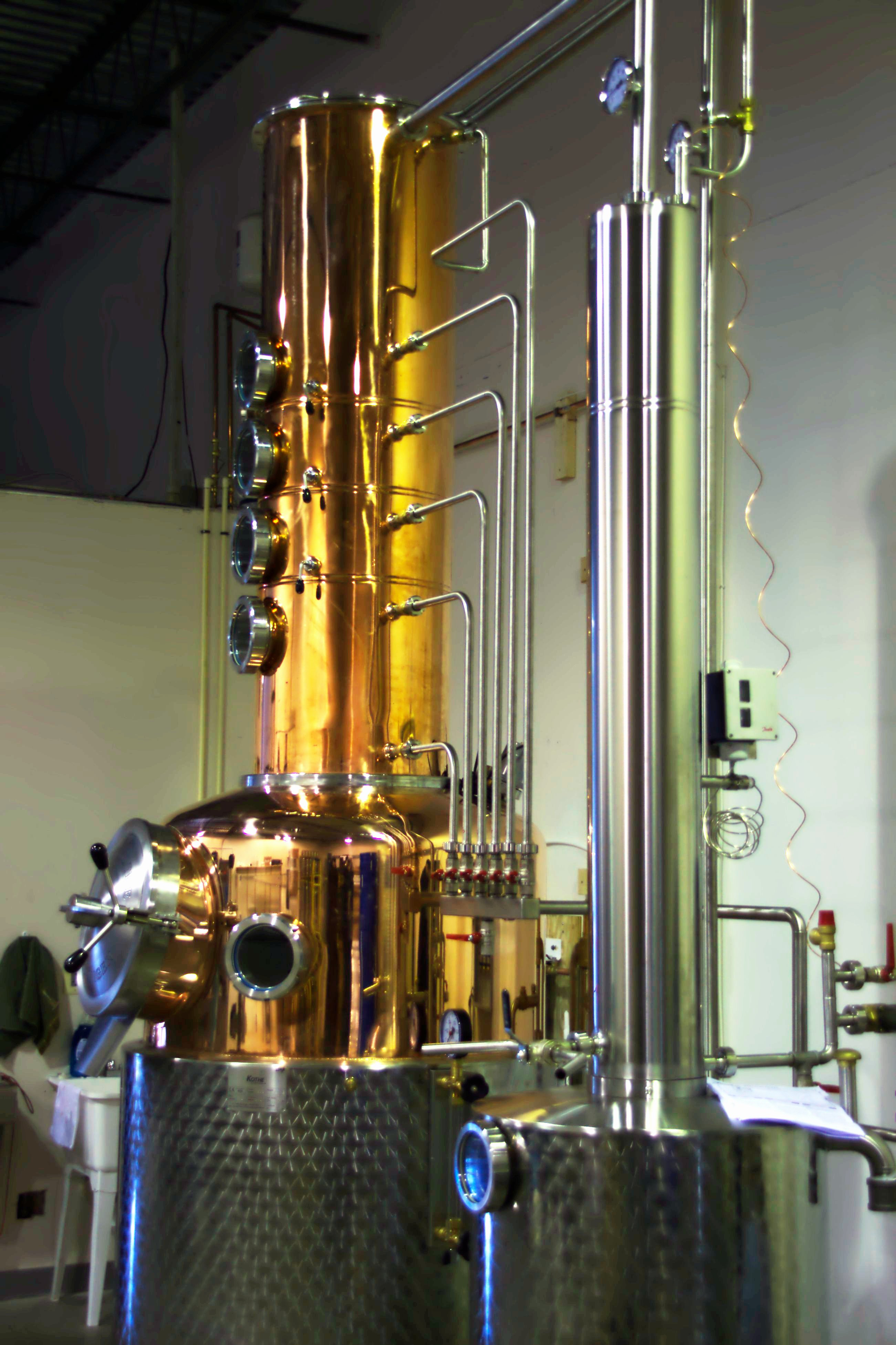 Kothe K-900 still at Catoctin Creek Distillery